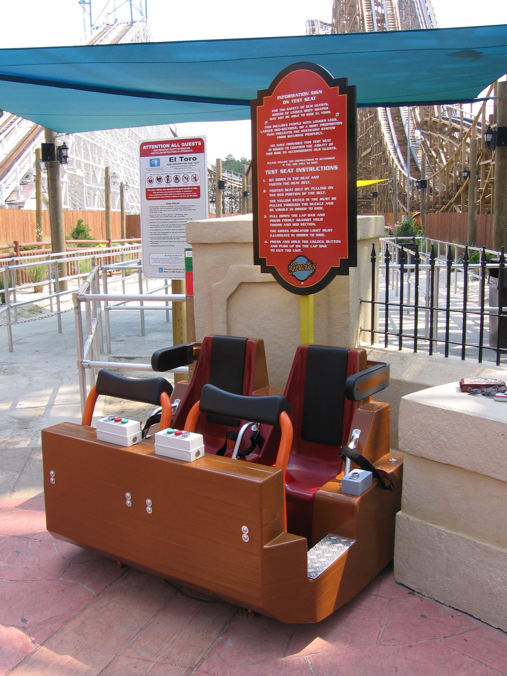 El Toro's test seat